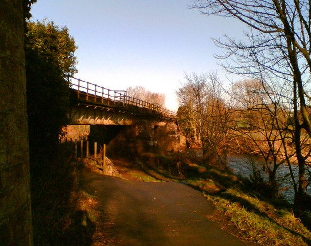 Cummersdale Viaduct This viaduct carries the Maryport and Carlisle railway line over the River Caldew. The path is part of the Cumbria Way long distance footpath.